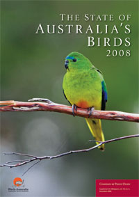 The cover of the 2008 edition of State of Australia's Birds